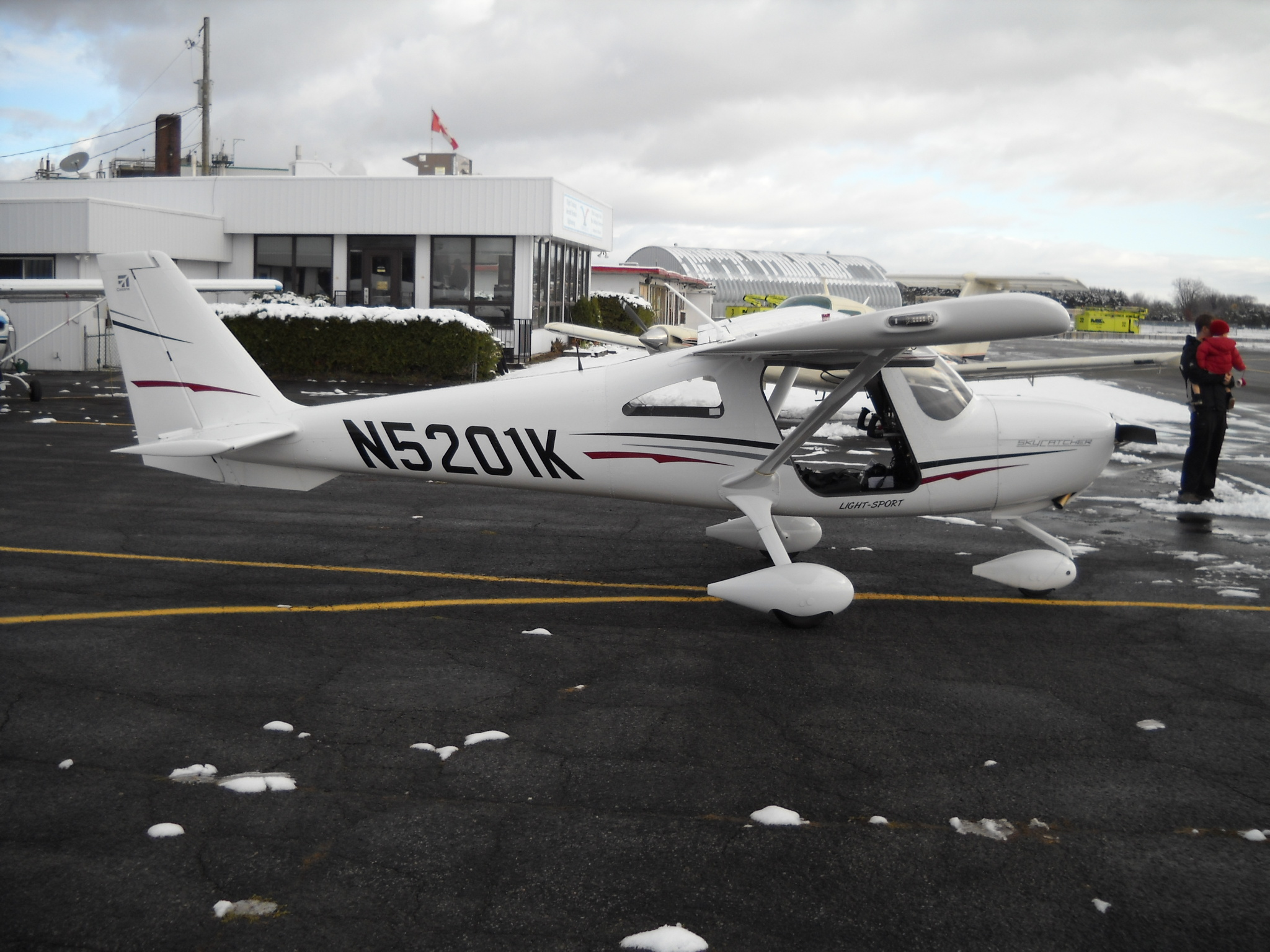 Cessna 162 Skycatcher serial number 16200010 at the Ottawa Flying Club